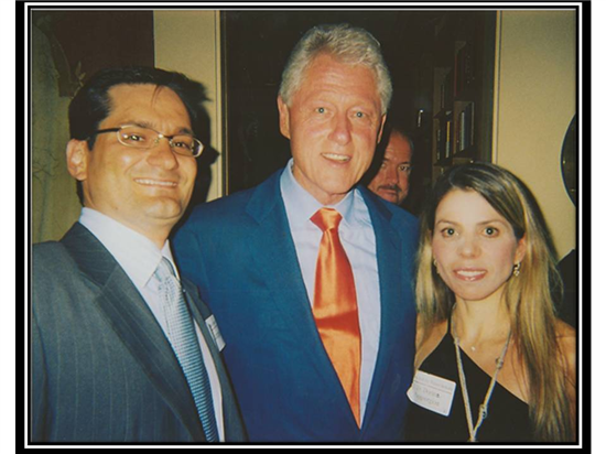 James Cargas, President Bill Clinton, and Dorina Papageorgiou at an event.